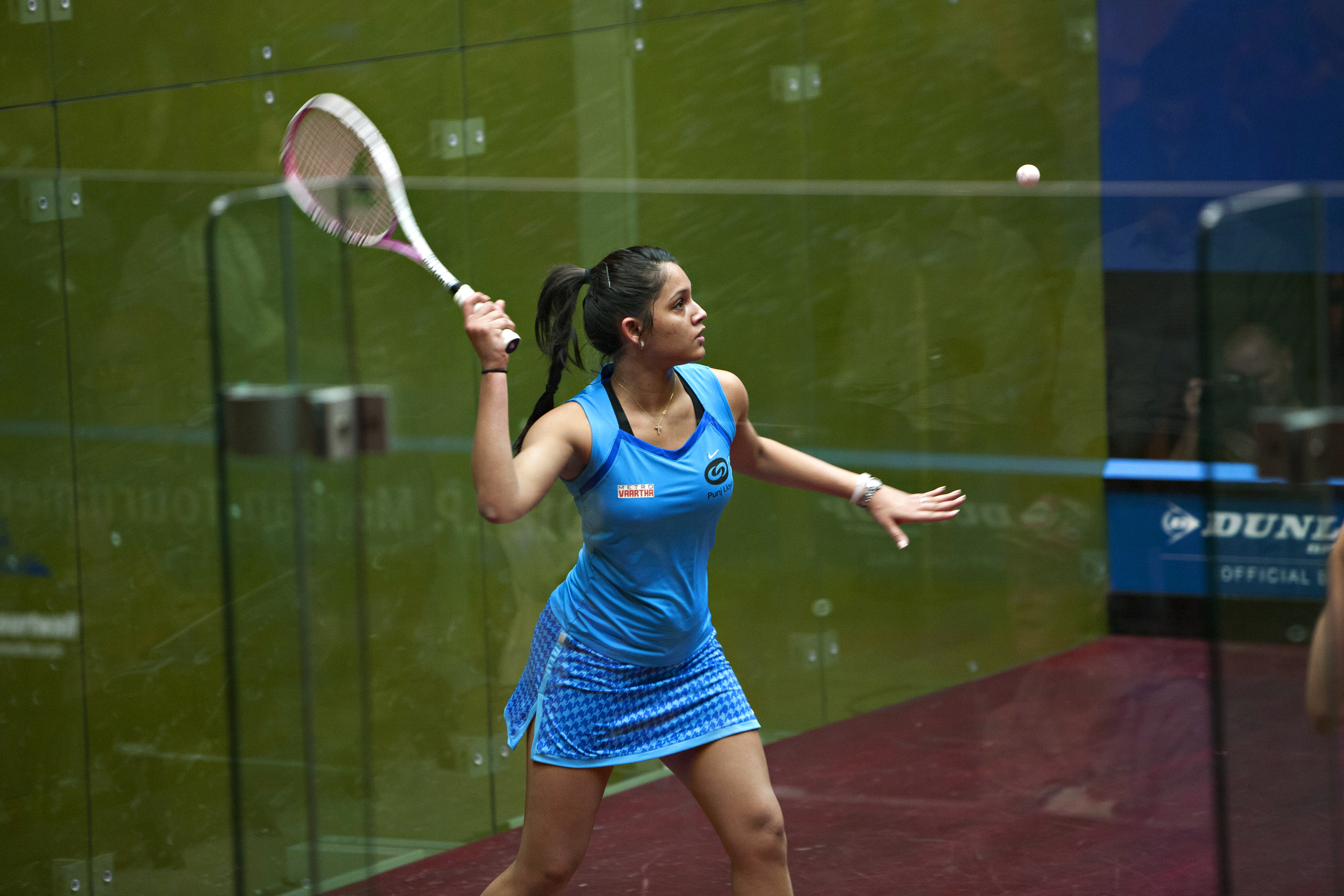 J.P. Morgan Tournament of Champions Squash 2012, from Grand Central Terminal, New York, NY on January 25. Dipika Pallikal (India) defeated Jaclyn Hawkes (New Zealand) in the women's semifinals.